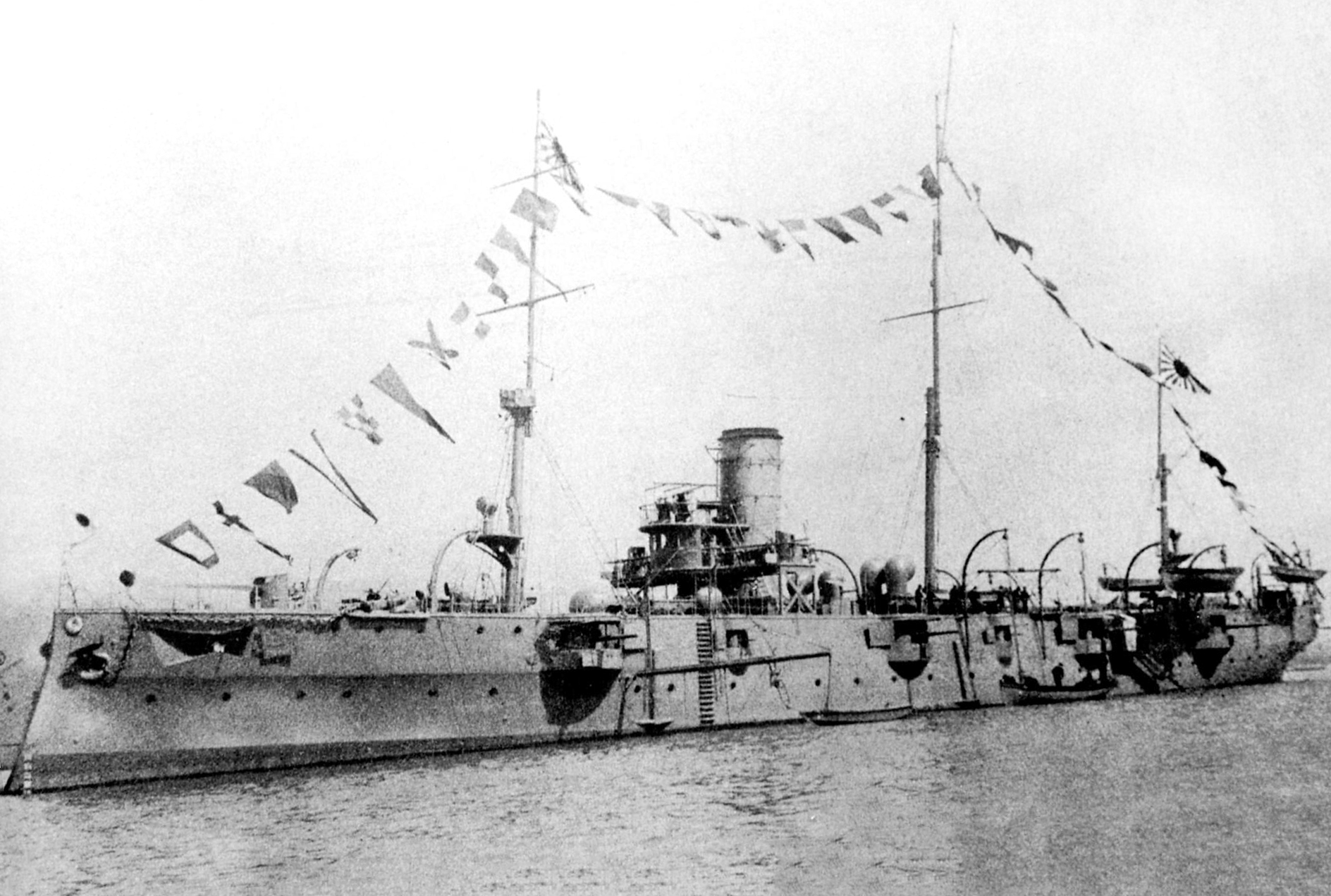 Japanese cruiser Chiyoda with parade flags